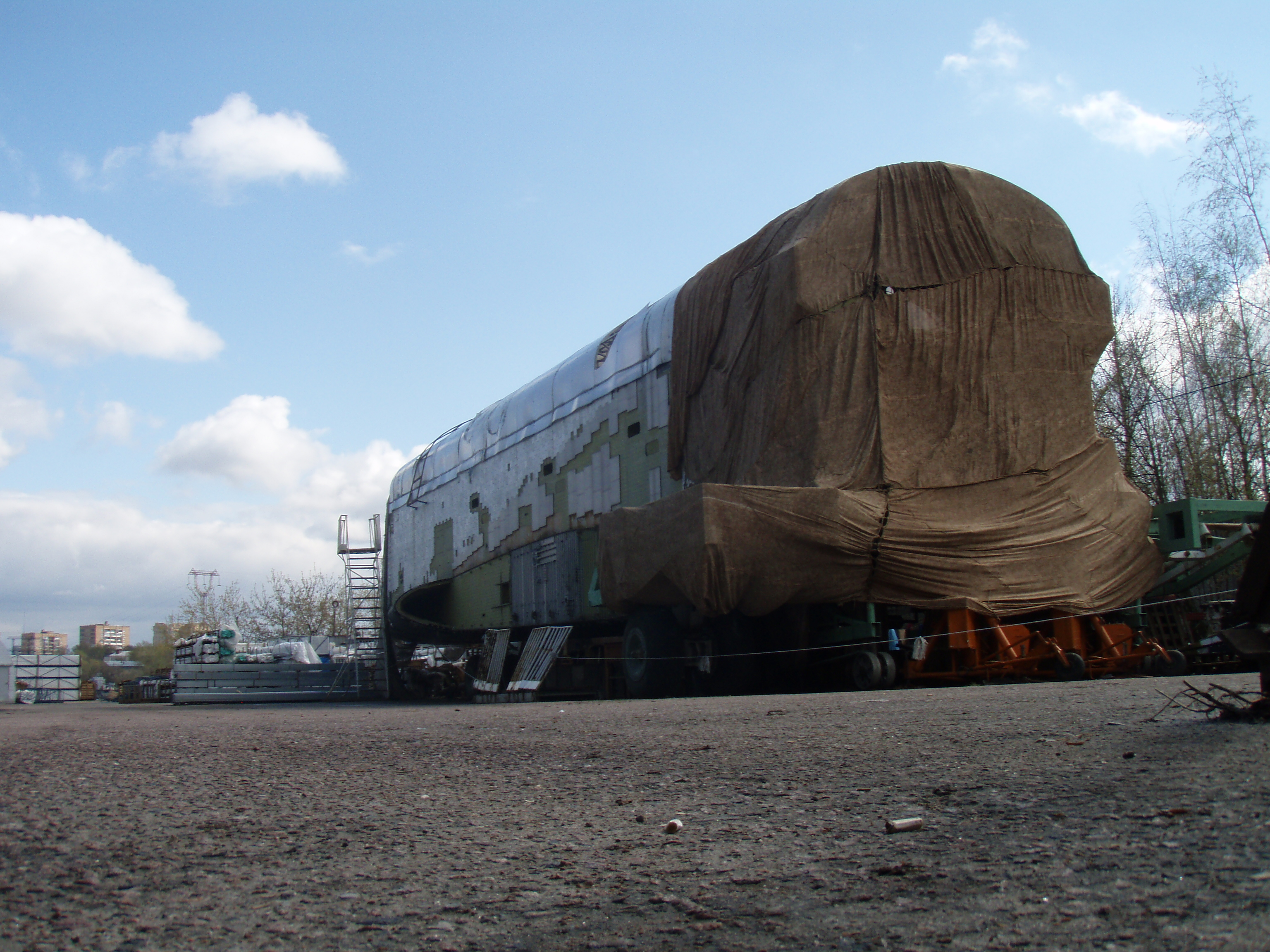 Buran 2.01 at Moscow